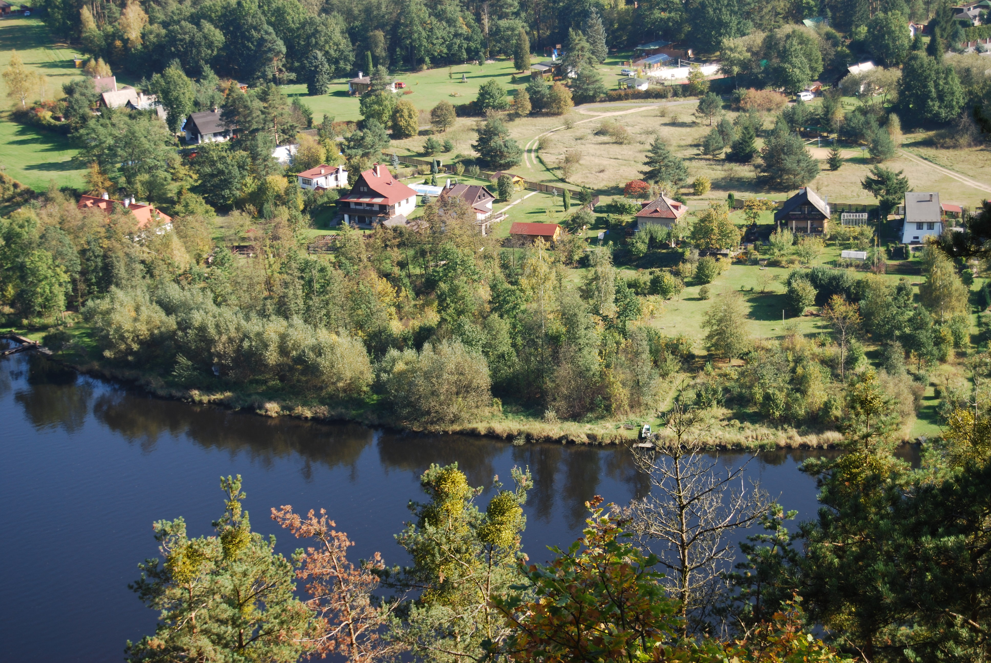 Landscape around Velká village, part of Kamýk nad Vltavou village in Příbram District, Czech Republic